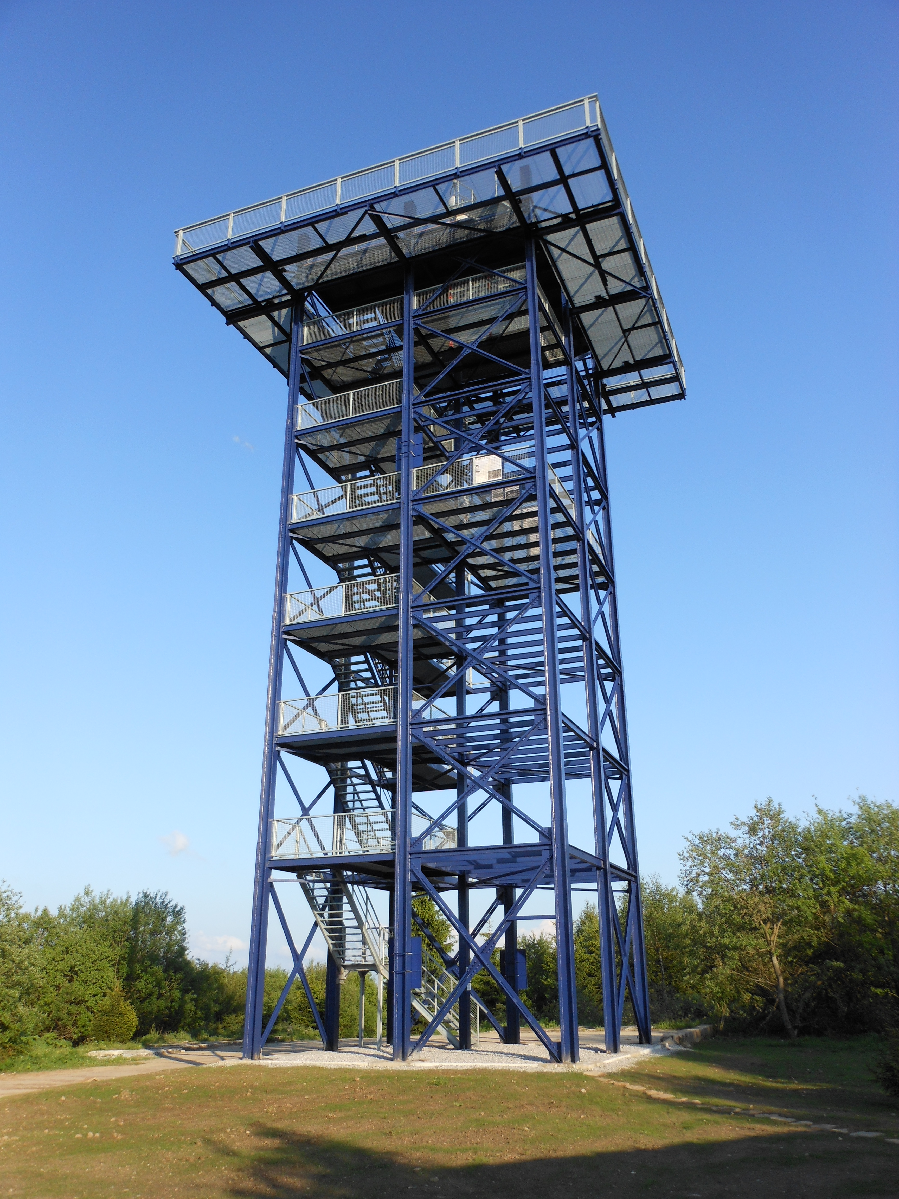 View-tower Havran in the Bohemian Forest